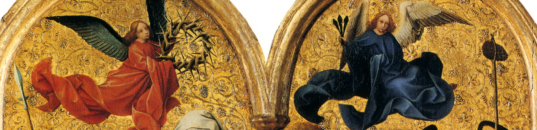 Triptych with the Entombment of Christ Oil on panel, 60 x 48.9 cm (central panel without frame), 60 x 22.5 cm (wing without frame) London, Courauld Institute Galleries